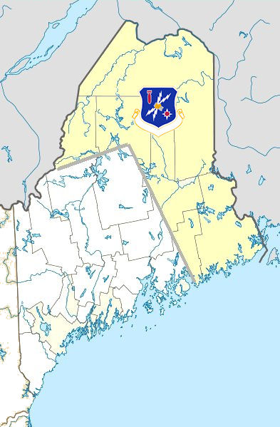 Map of ADC 36th Air Division Area